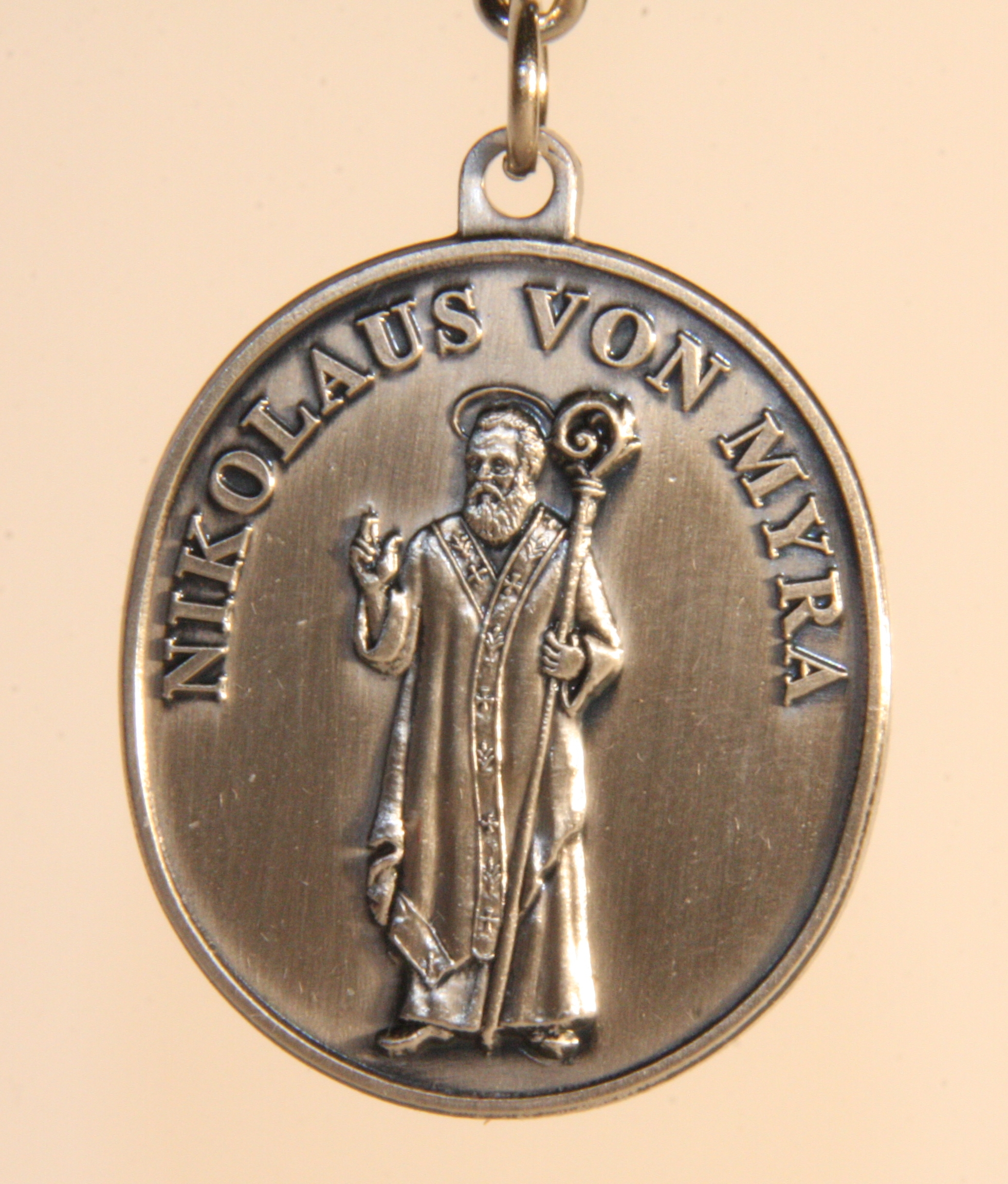 image of Saint Nicholas on a key ring